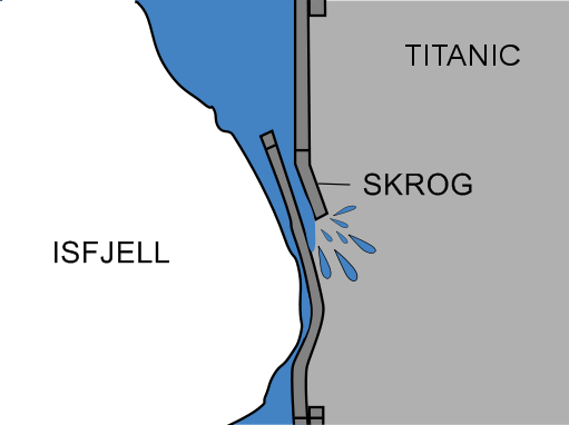 Norwegian version of File:Iceberg and titanic (en).svg.